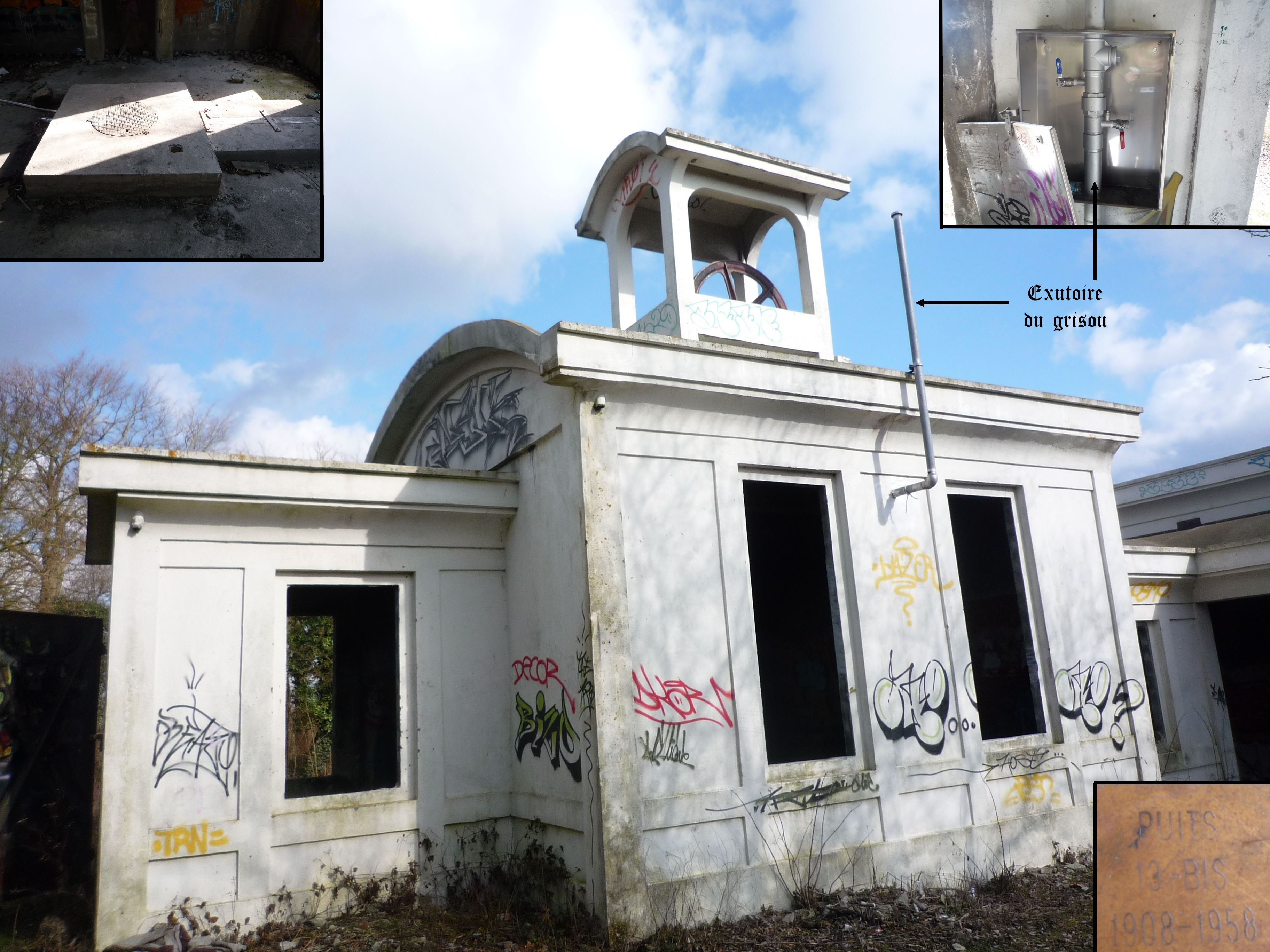 Pit n° 13 bis, Compagnie des mines de Lens, Bénifontaine, Pas-de-Calais, Nord-Pas-de-Calais, France.